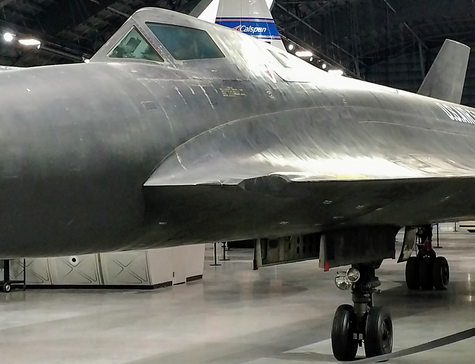 Lockheed YF-12 modified forward chine, designed to support the Hughes AN/ASG-18 radar